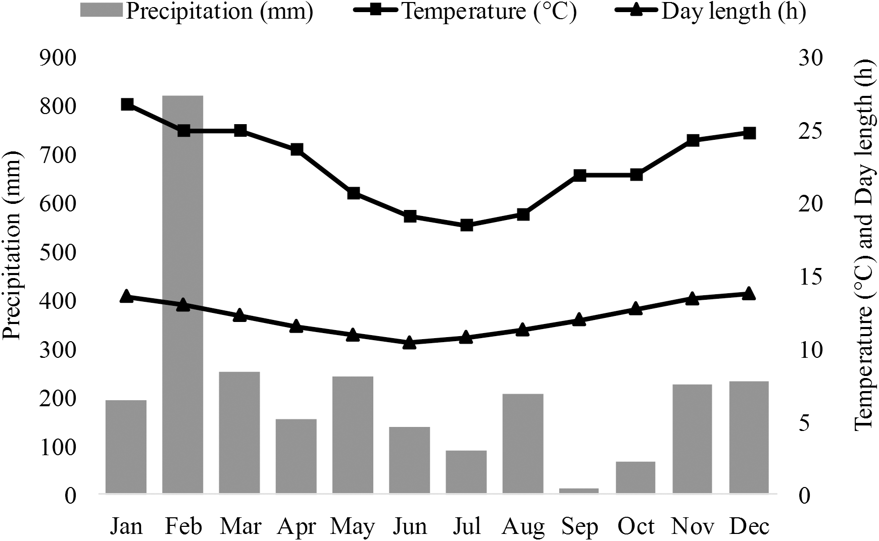 Mandena Conservation Zone, monthly precipitation, mean temperature, mean day length in 2013